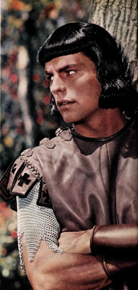 Robert Wagner as Prince Valiant